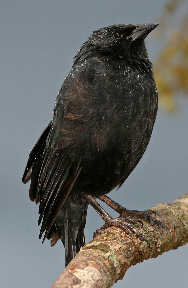 Chopi Blackbird at Iguazu National Park, Argentina